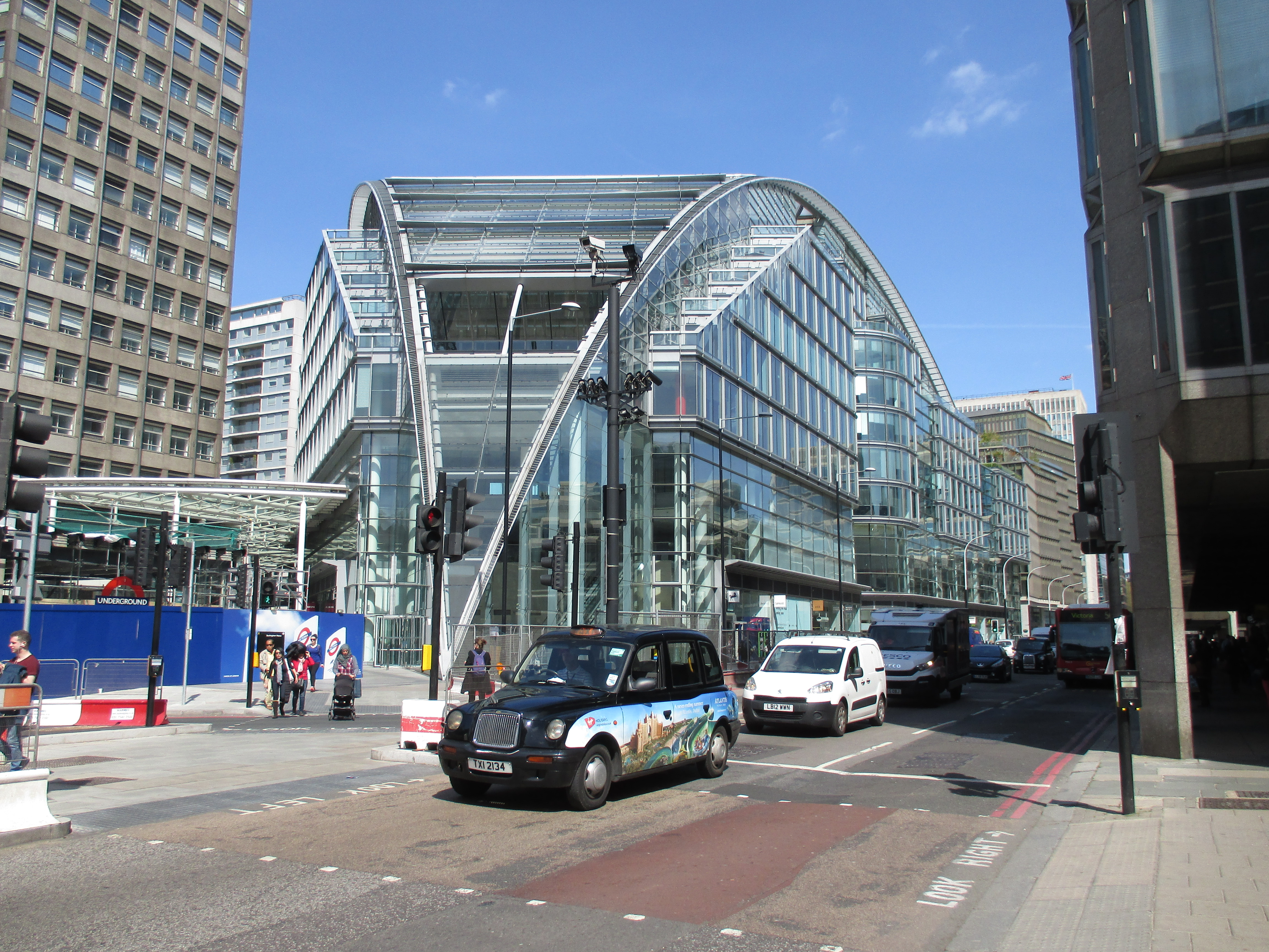 100 Victoria Street, Westminster, seen from the south-west.